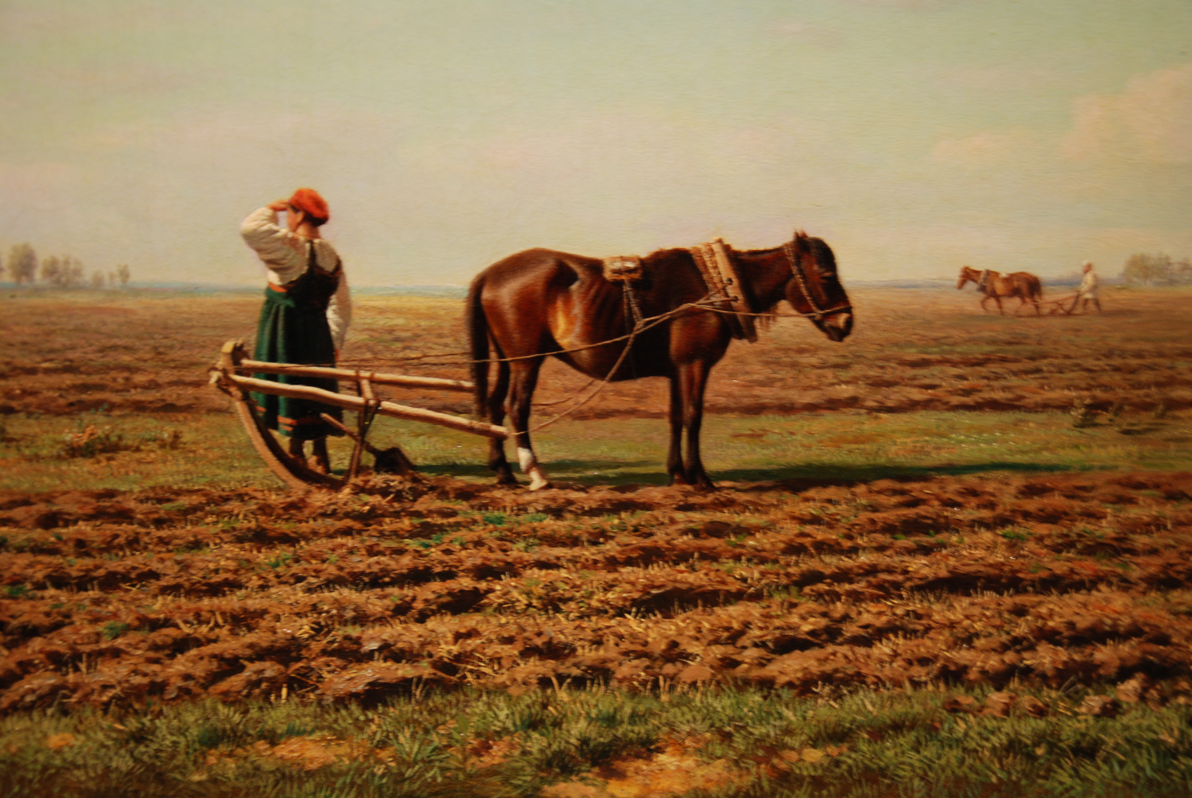 Detail of On the field by Michail Klodt, 1871